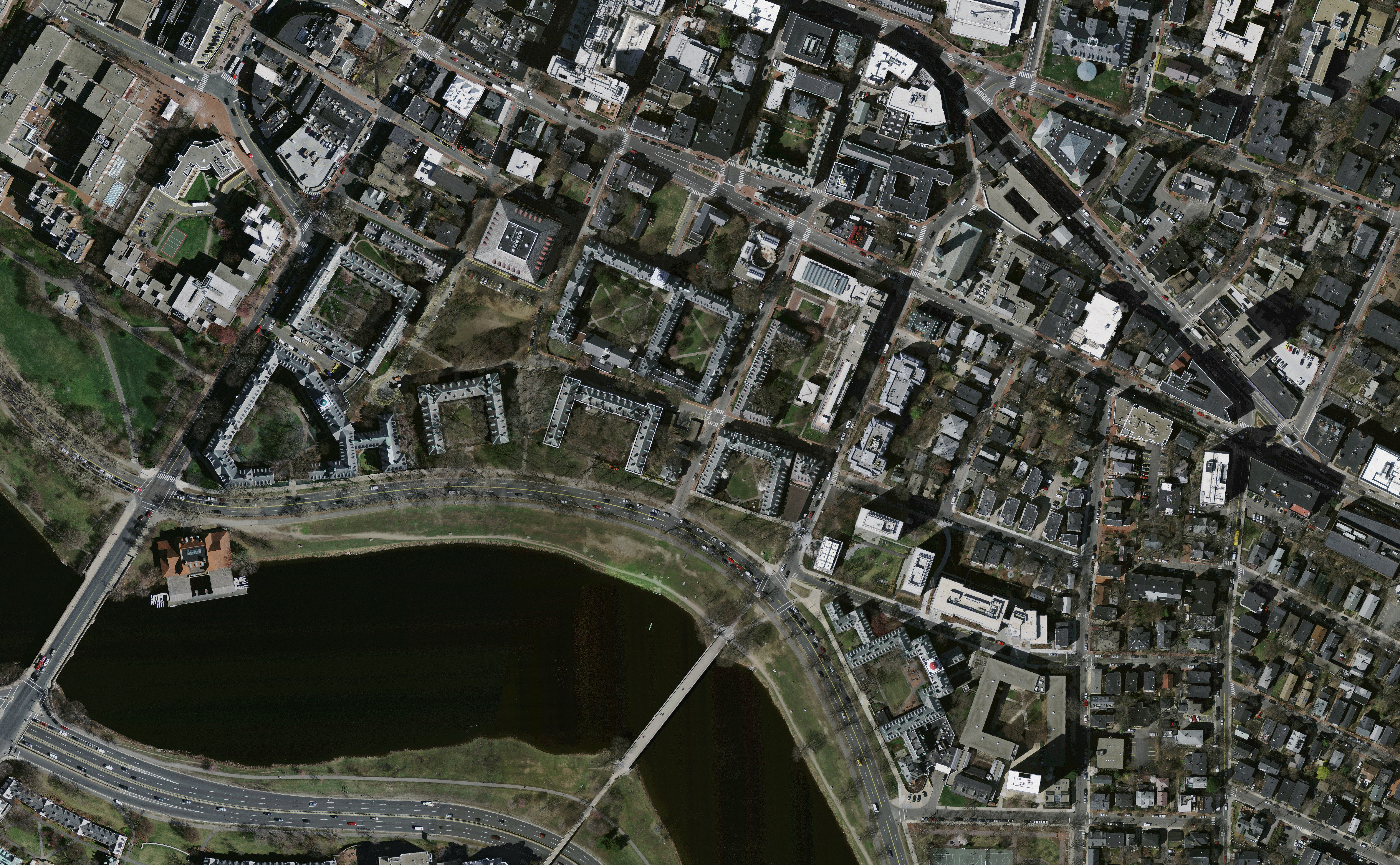 Aerial photos of the Harvard House Historic District in Cambridge, Massachusetts. 9 of Harvard's 12 residential are located there, collectively known as the "river houses". 15cm Aerial photography, tile 23129020. More information about the photo: Photo can also be extracted from but Massachusetts provides it in a higher quality uncompressed format. It is still the work of the USGS.